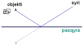 Pasqyre e rrafshet